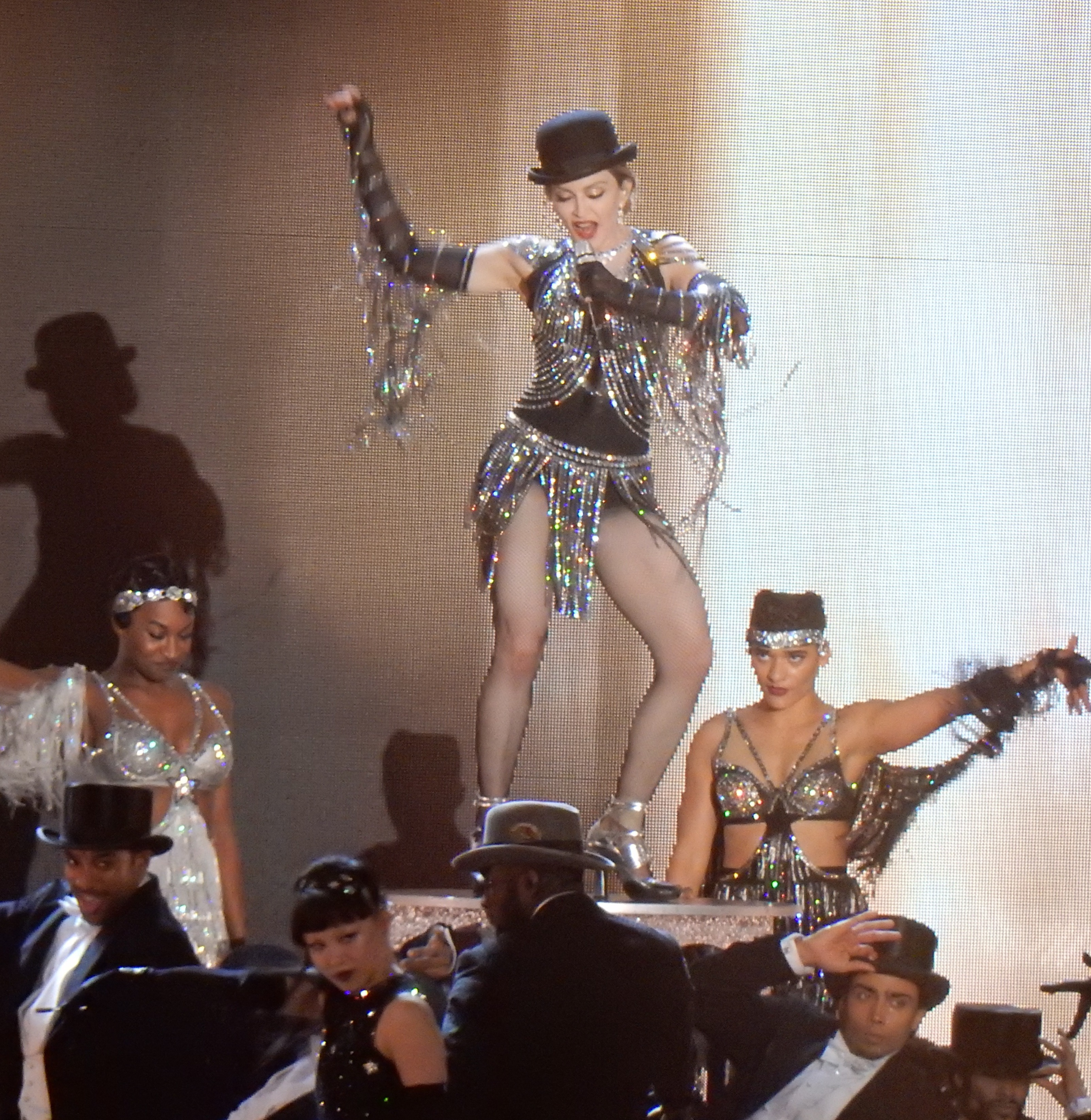 Madonna - Rebel Heart Tour 2015 - Washington DC